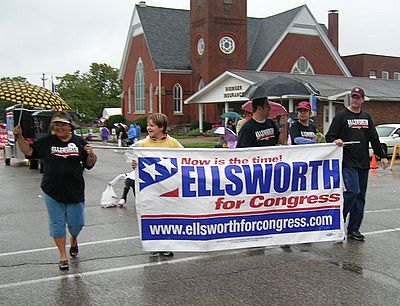 Parade for Brad Ellsworth.